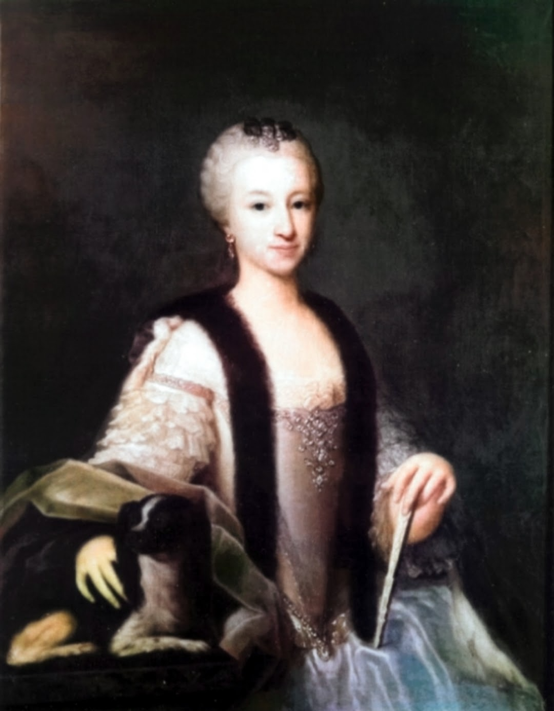 Ritratto di Eleonora Maria Teresa di Savoia